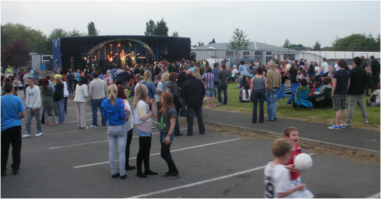 The Big Friday Night music festival at the George Spencer Academy, Stapleford, Nottinghamshire, England on 6 May 2011.